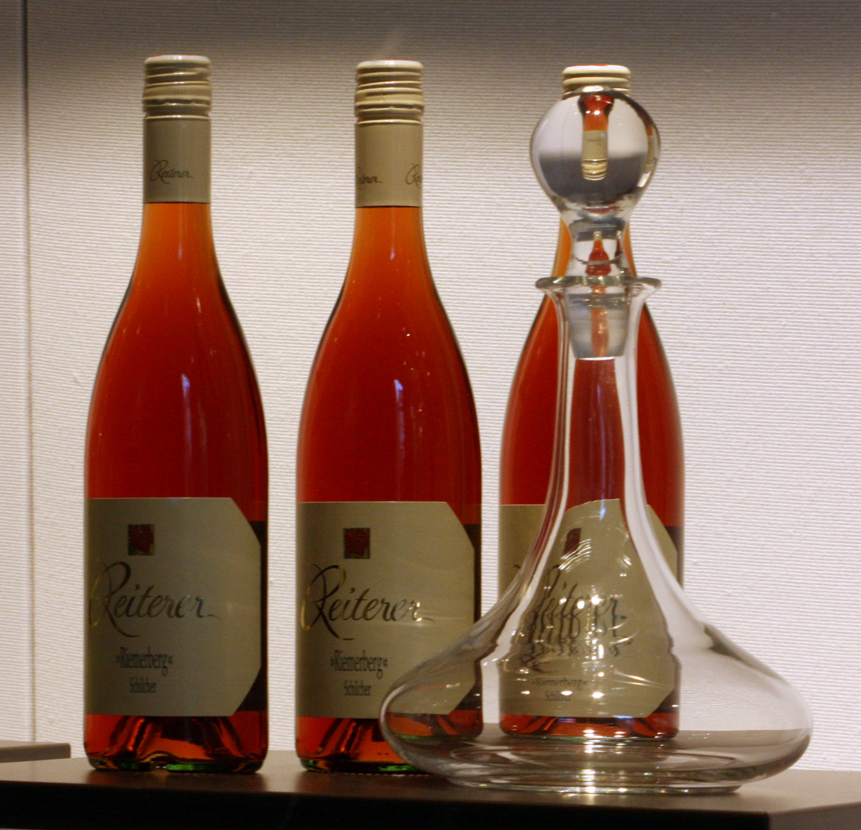 Decanter and three bottles of wine.